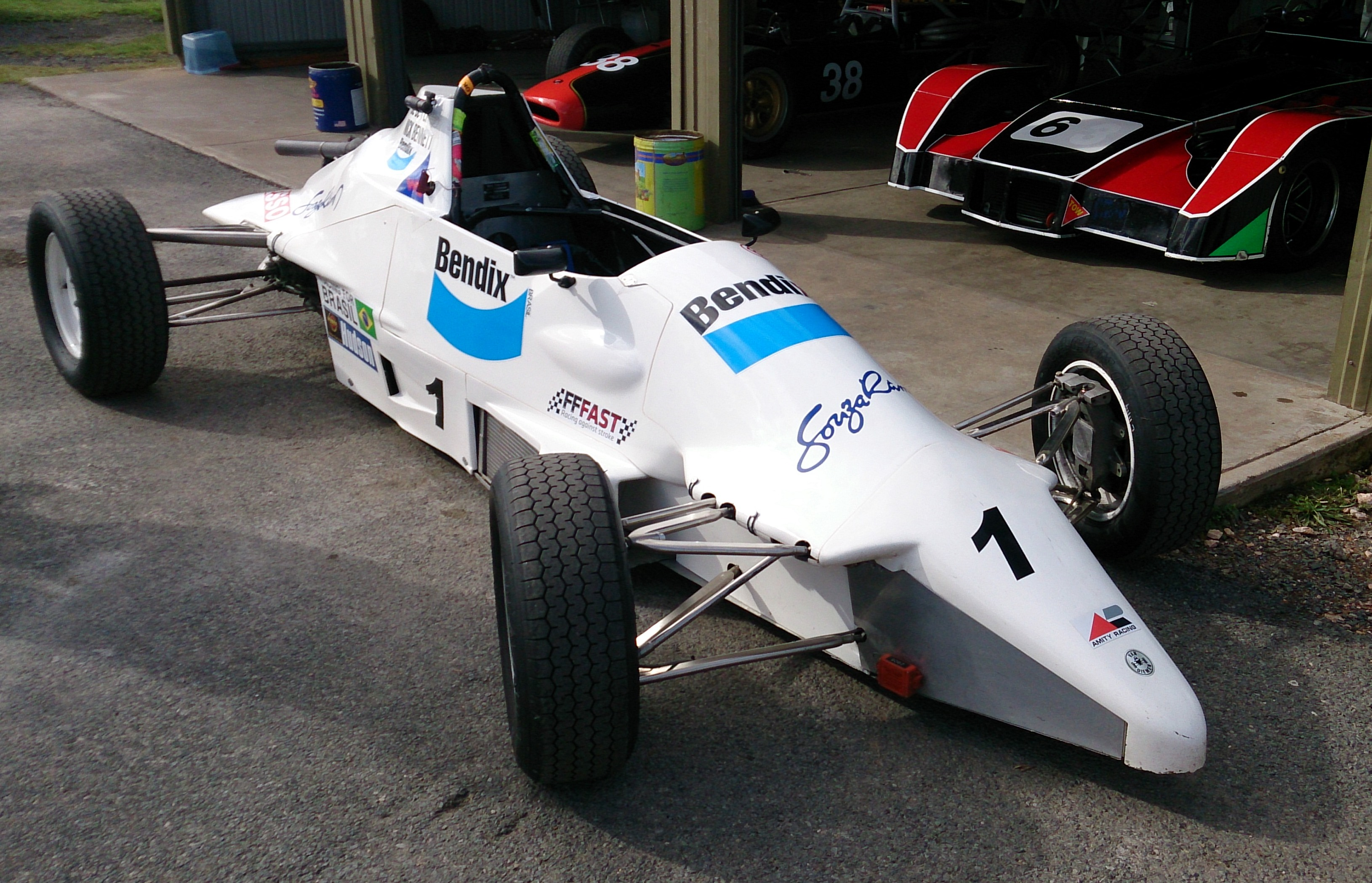 Van Diemen RF88 of Nick Bennett at Mallala Motor Sport Park on 26 April 2015